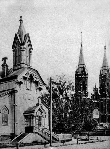 Koscol and Kirche in Rybinsk in the begining of the XX century